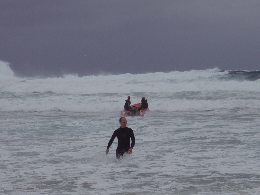 Training with an Inflatable Rescue Boat. driver Ben White. passenger Alison Stump.